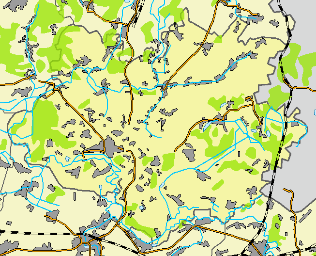 Putyvl raion, Sumy oblast, Ukraine